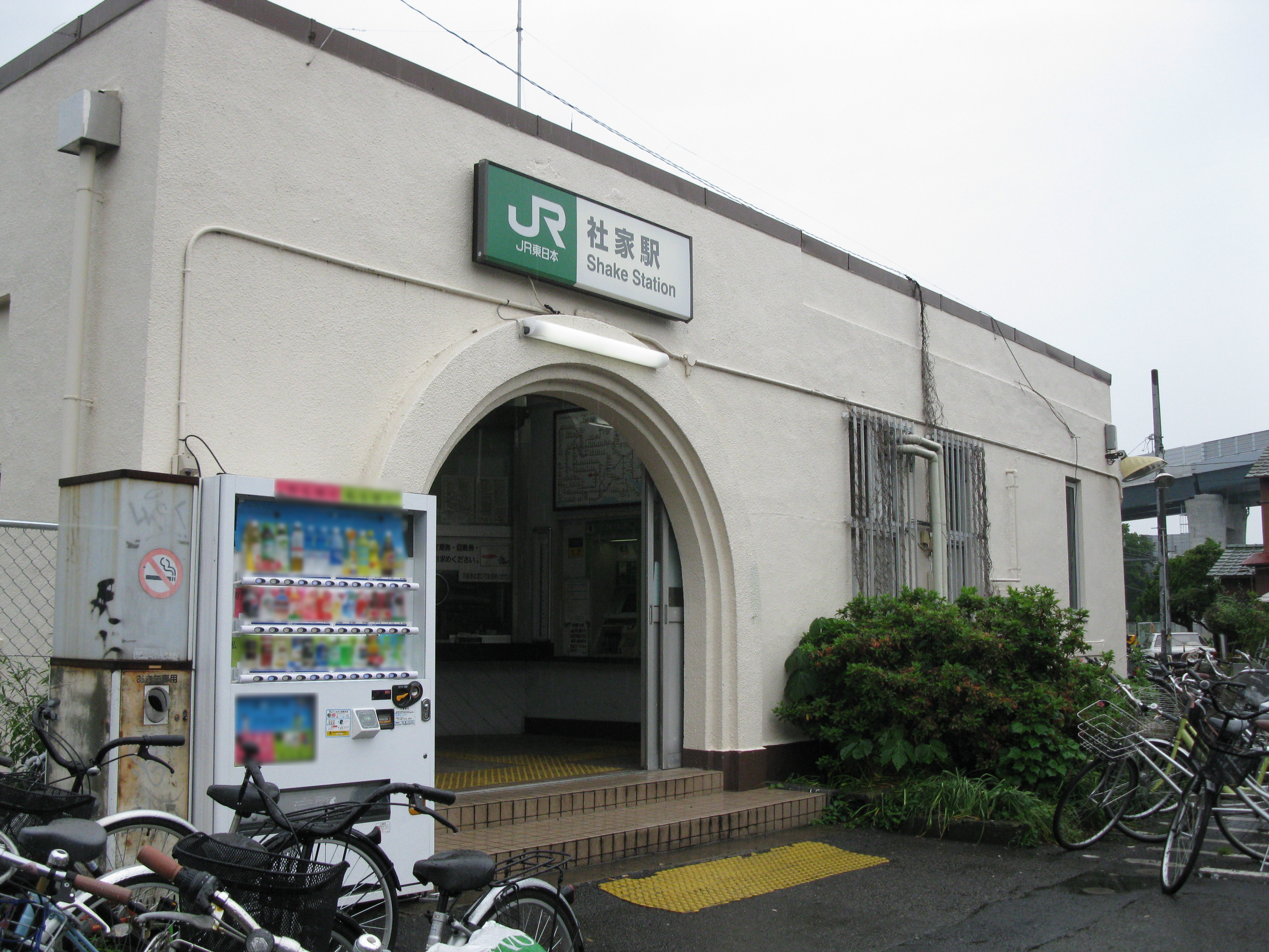 Shake Station building (East Japan Railway(JR East) Sagami Line)